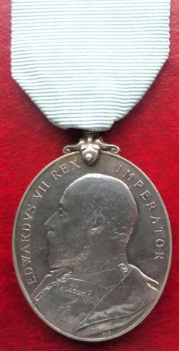 British long service medal awarded to the part-time Militia from 1904 to 1930